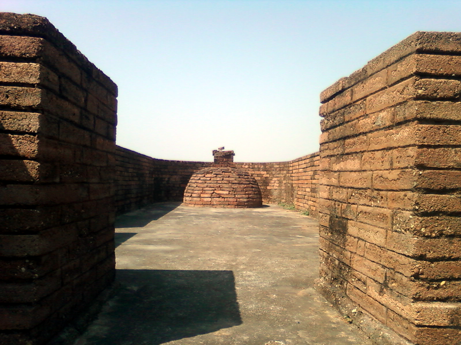 Apsidal Stupa at Bavikonda Monastic Complex near Visakhapatnam of Andhra Pradesh